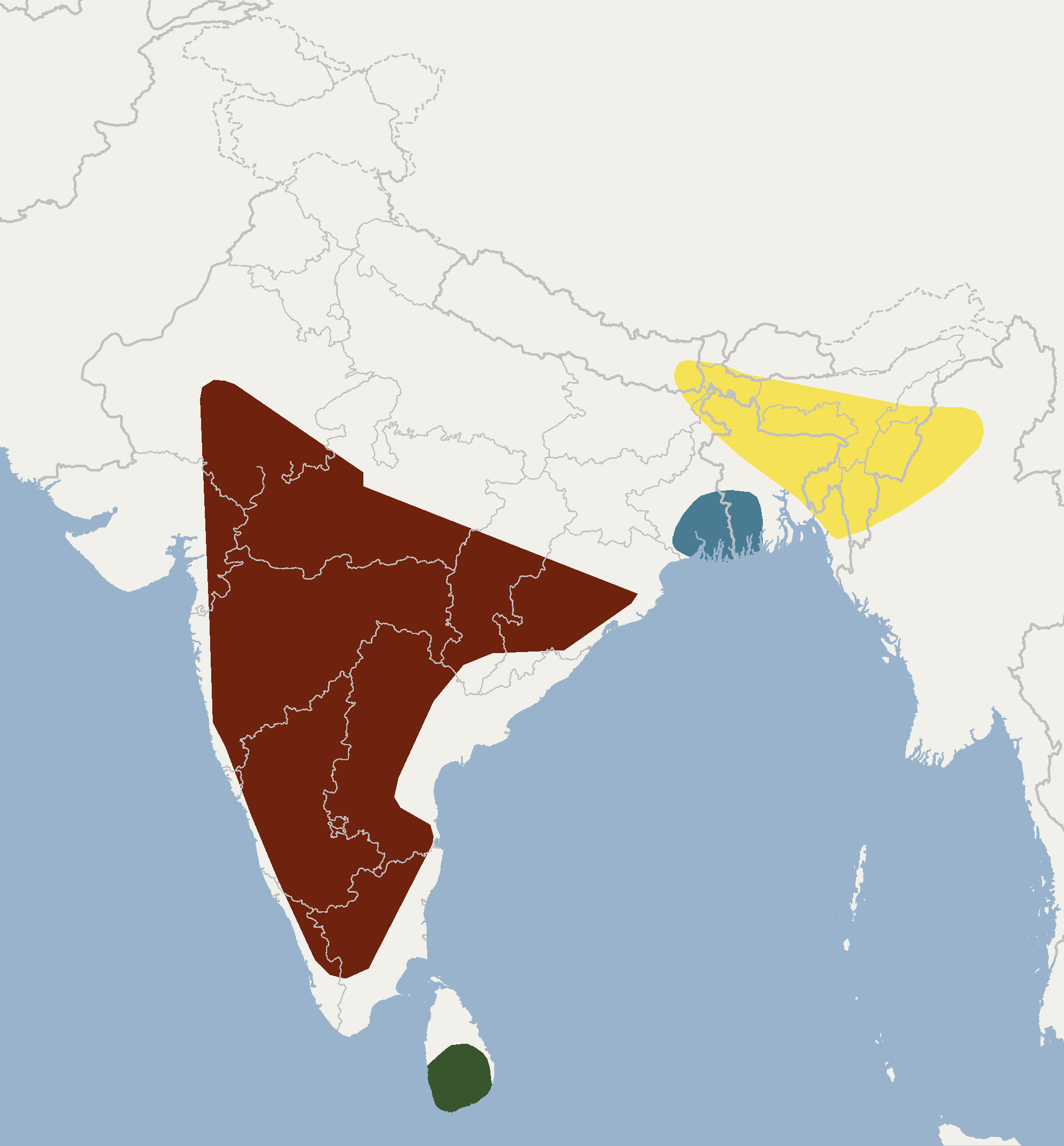 According to Bates & al., 2015. Subspecies range in different colours